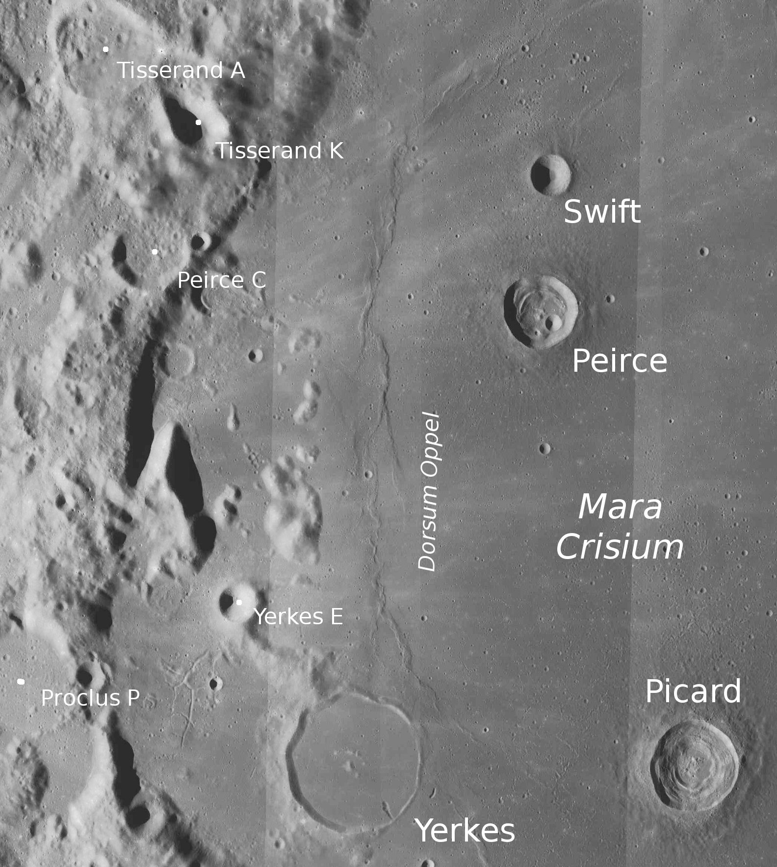 Dorsum Oppel with craters Swift, Peirce, Yerkes and Picard (detail of LROC - WAC global moon mosaic)